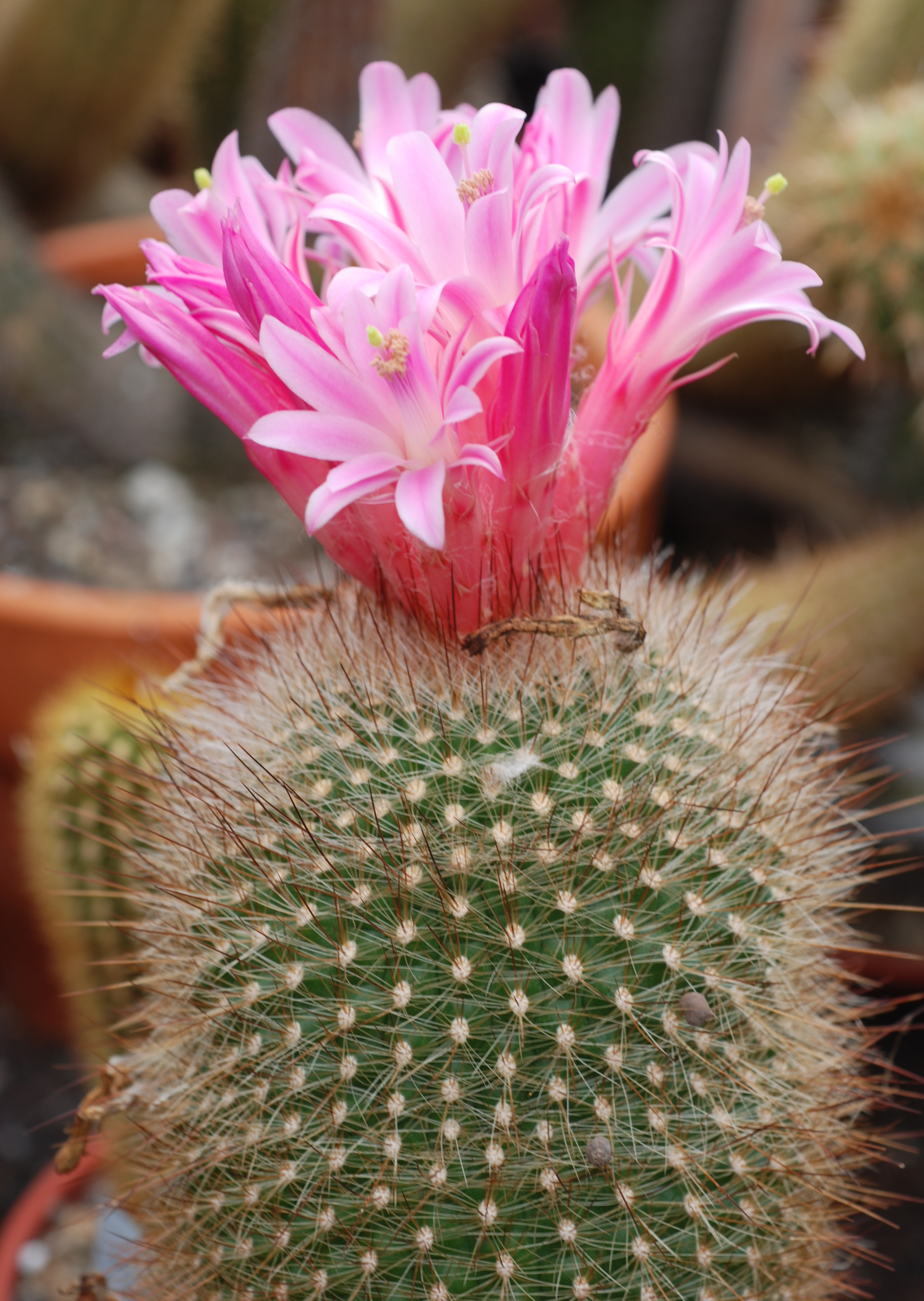 Matucana haynei subsp. myriacantha takern at the National Botanic Garden of Belgium, May 2007.